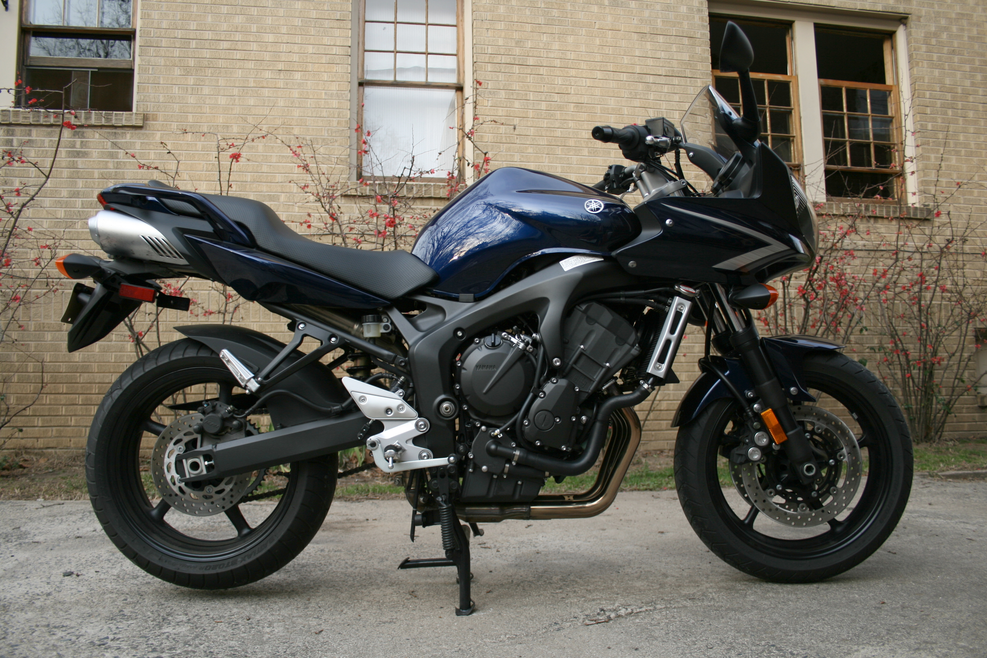 A 2007 blue Yamaha FZ6 motorcycle on its centre stand.